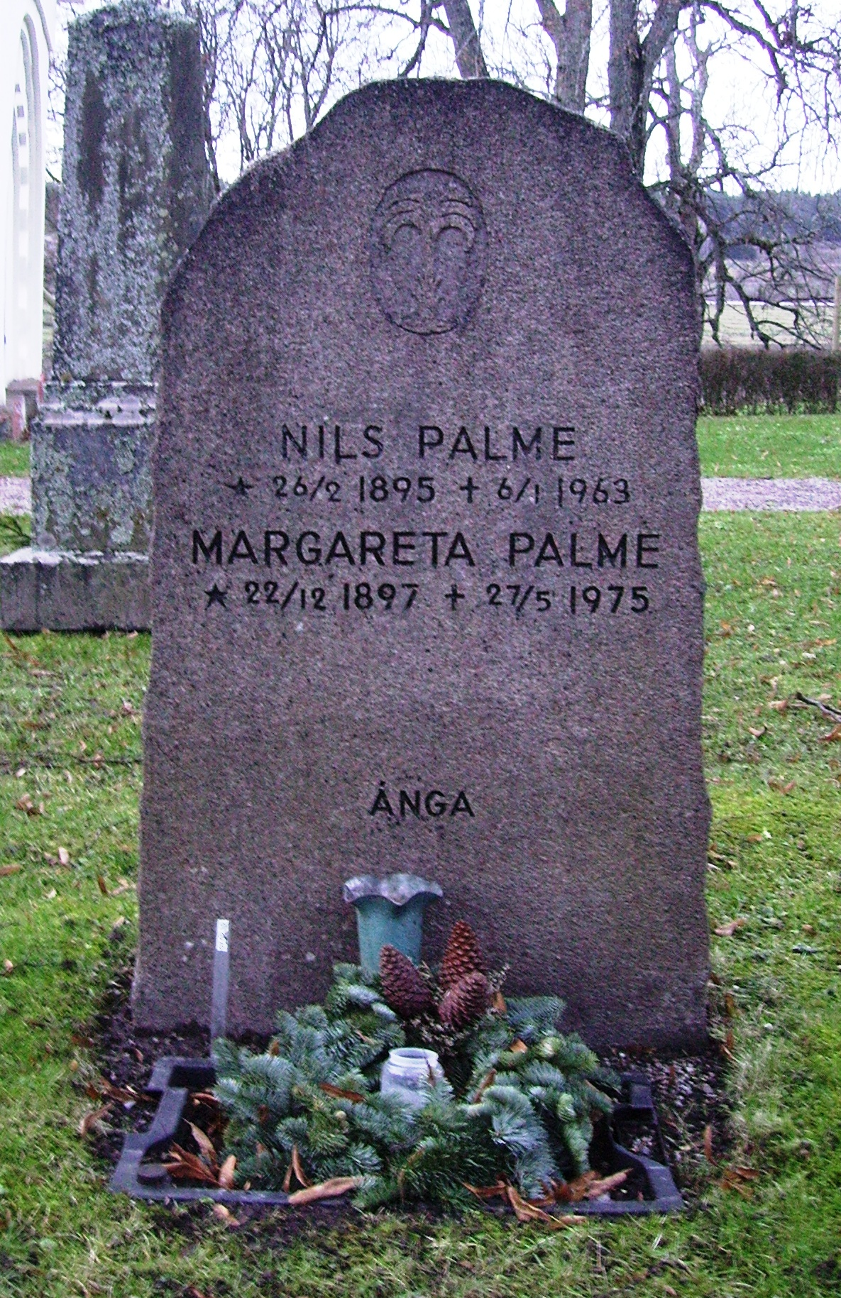 Picture of Nils Palme's grave at Svärta cemetary.